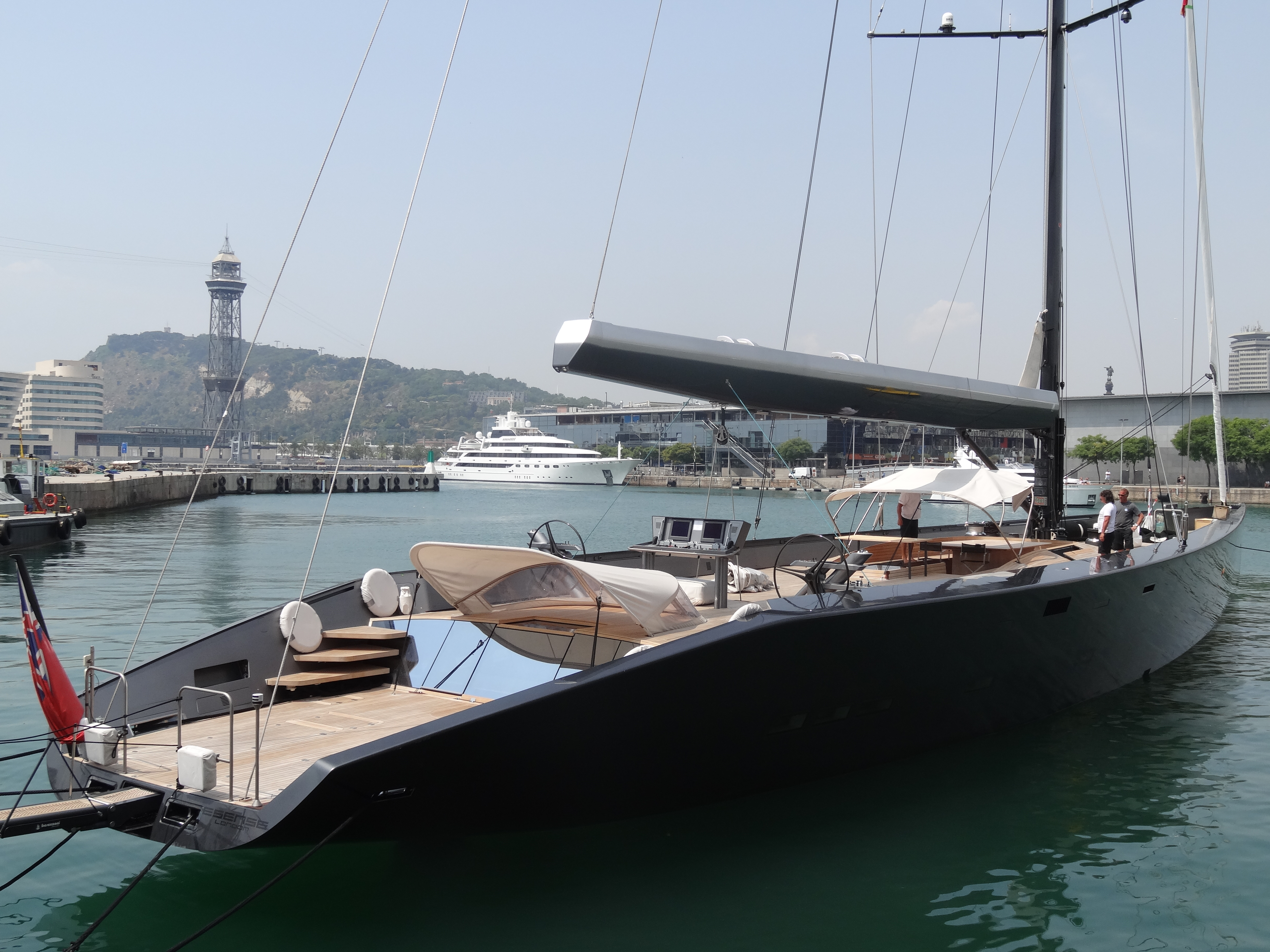 Esence (ship, 2006) at Marina Port Vell, Port of Barcelona